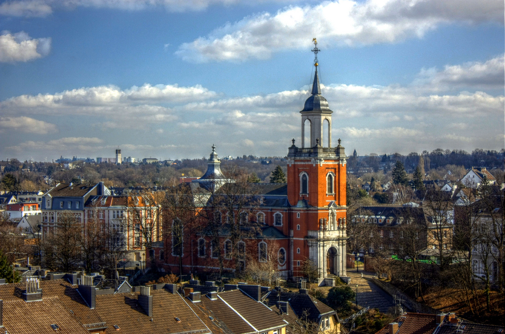 Same church, different day. Qtpfsgui 1.8.12 tonemapping parameters: Operator: Mantiuk Parameters: Contrast Mapping factor: 0.099 Saturation Factor: 1.171 PreGamma: 0.606